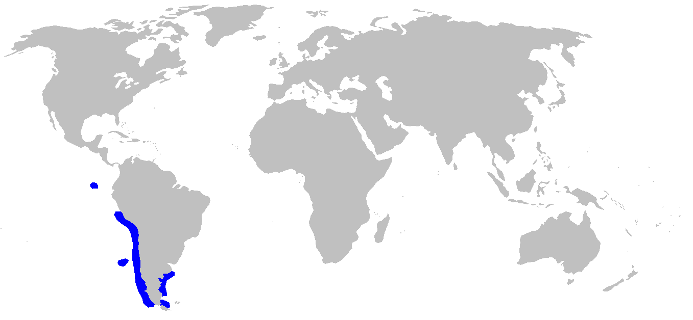 Distribution map for Mustelus mento